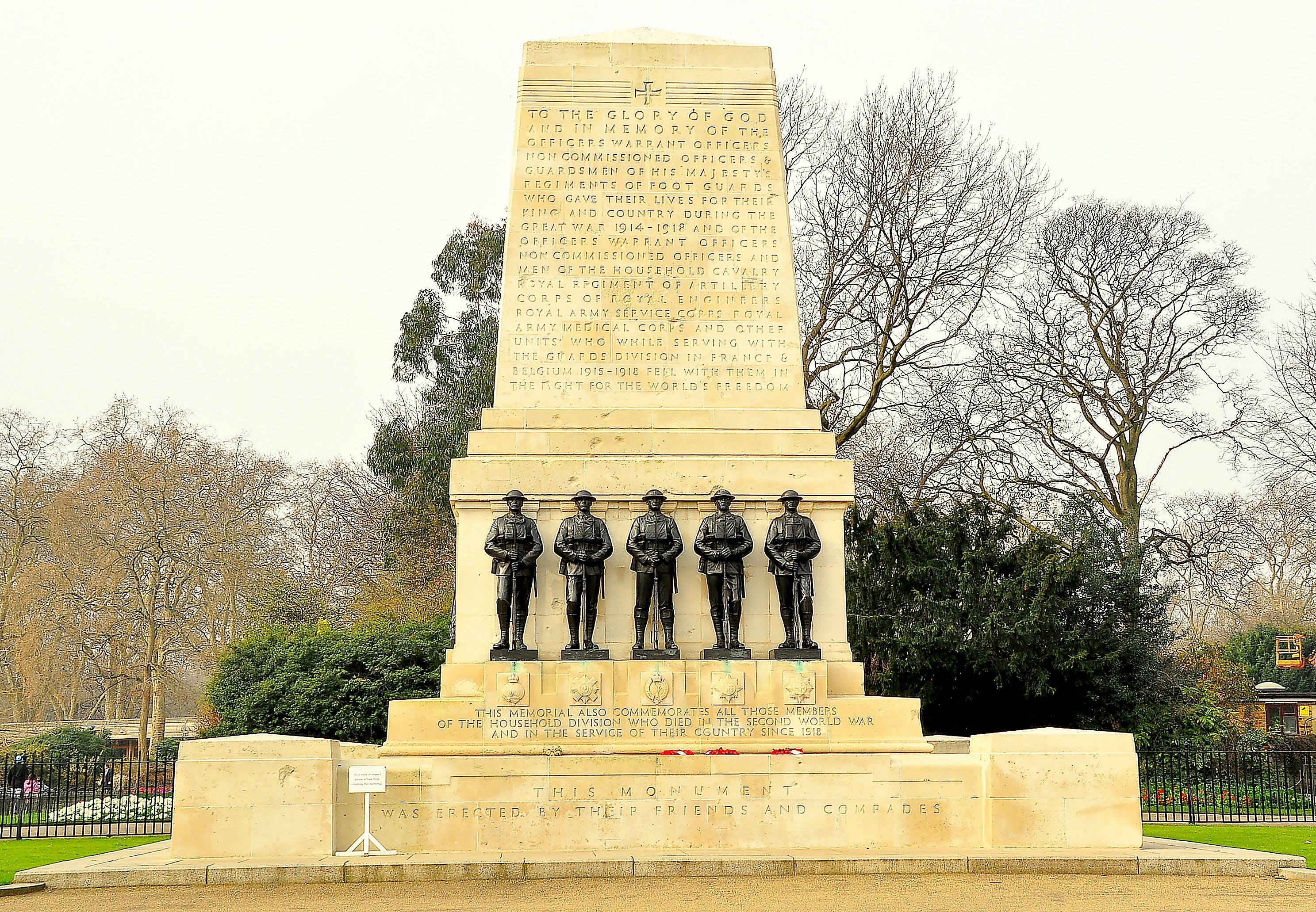 Guards Memorial, Horse Guards Parade, Westminster, London. Memorial unveiled on 16th October 1926 by the Duke of Connaught and dedicated to the five Foot Guards Regiments of the Great War.